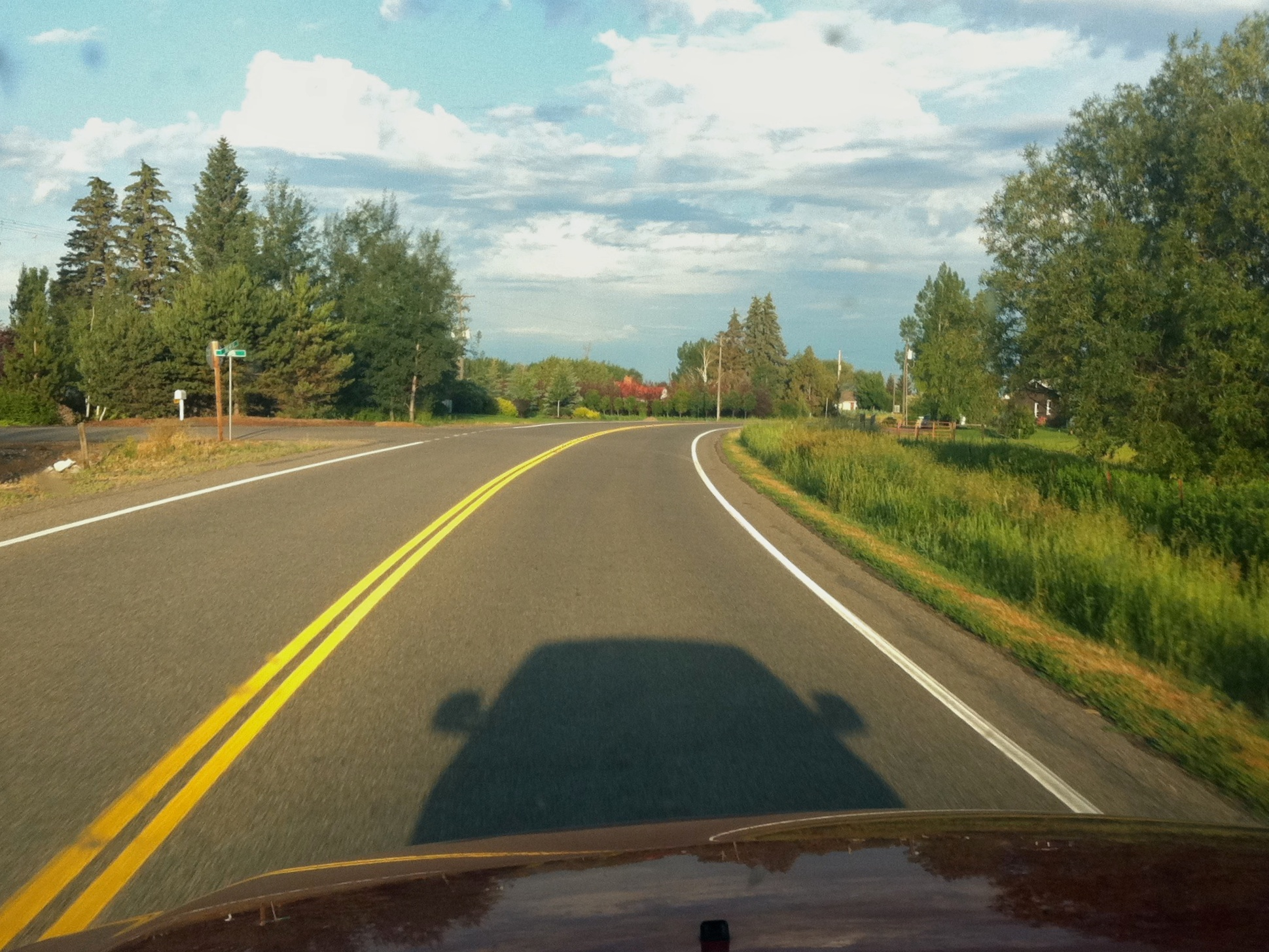 Measuring the journey, here in Teton, Idaho - see trip map